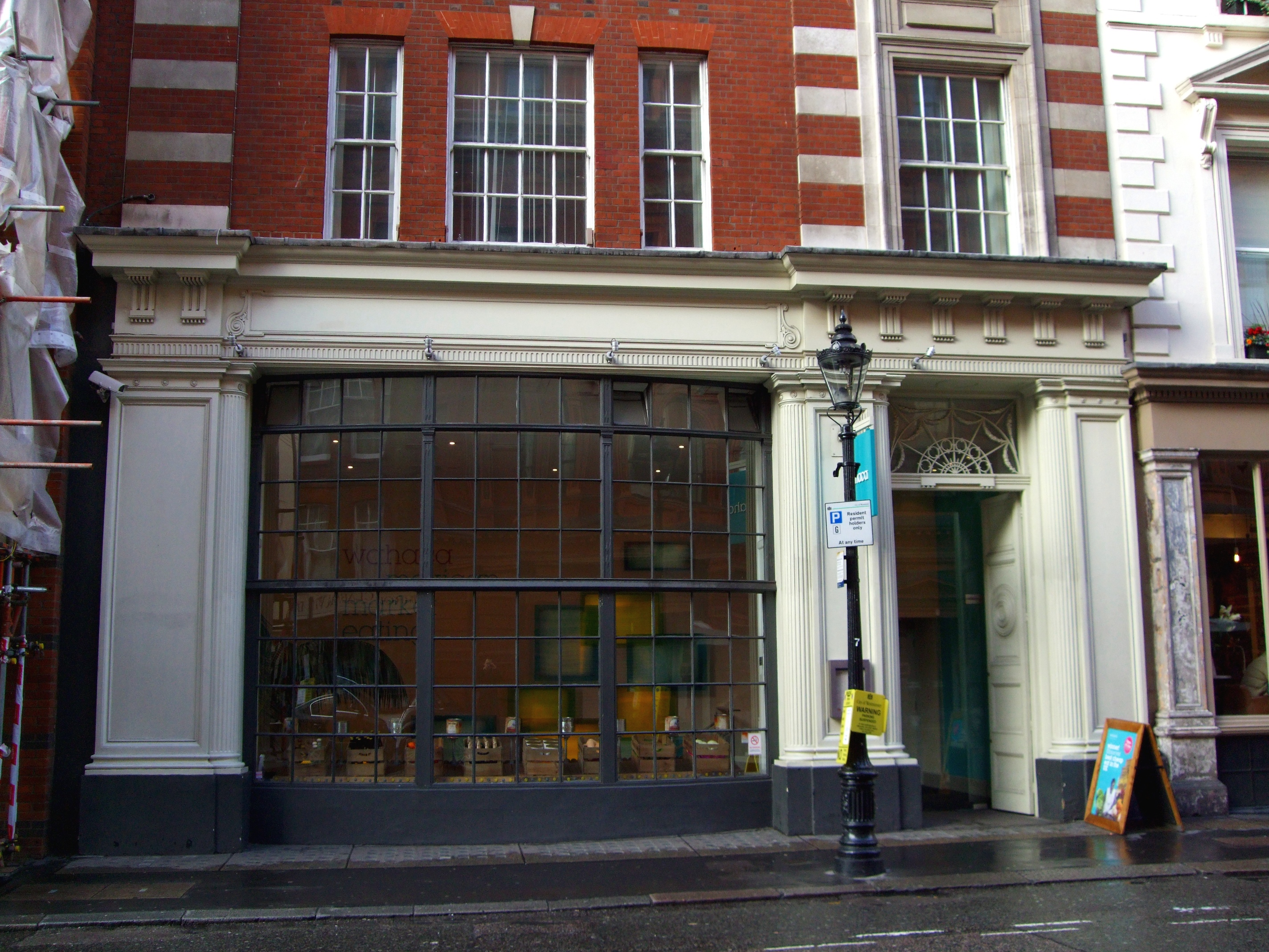 A very tasty Mexican restaurant, which always has huge queues on account of not taking bookings. Get there early. (This premises used to be a nondescript bar.) Address: 66 Chandos Place. Owner: (website); The Springbok; Bad Bob's. Links: Randomness Guide to London London Eating Qype Beer in the Evening (The Springbok) --- The Evening Standard [Charles Campion] --- Andy Hayler Bellaphon [Les] Cheese and Biscuits [Chris Pople] Dos Hermanos [Robin Majumdar] Tamarind and Thyme [Su-Lin] Thring for Your Supper [Oliver Thring]